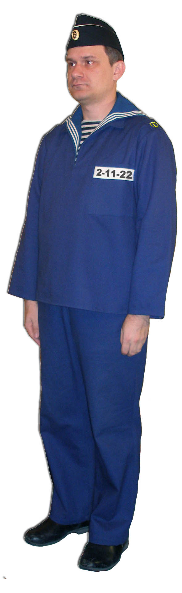 Daily (working) uniform of sailors, foremen and cadets of navy fleet of Russia